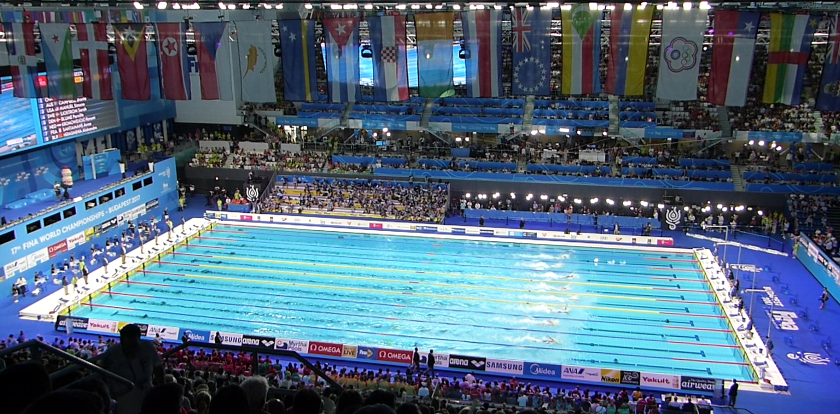 Women's 50M Freestyle Final. 2017 World Aquatics Championships Budapest. Taken on the 30th of July, 2017. Cropped from